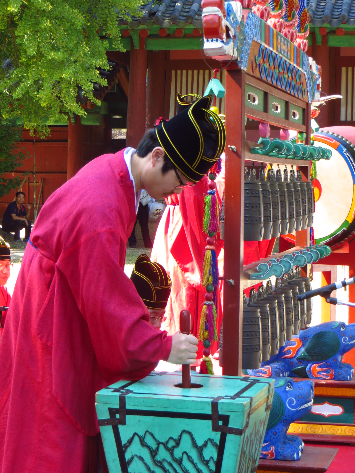 chuk, traditional percussion Korean instrument, played in court and ritual music